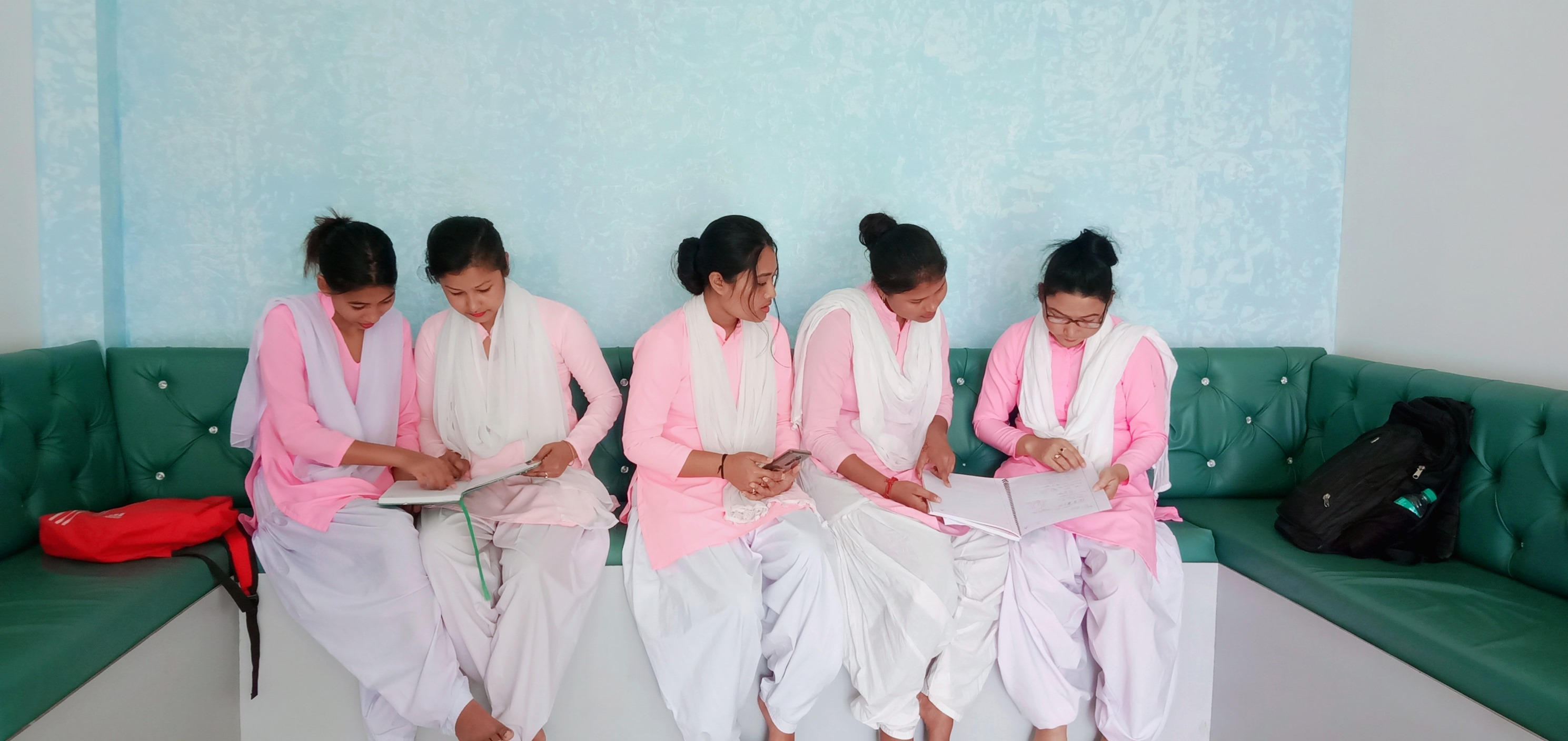 a glimpse